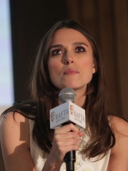 Keira Knightley talks about pride and prejudice